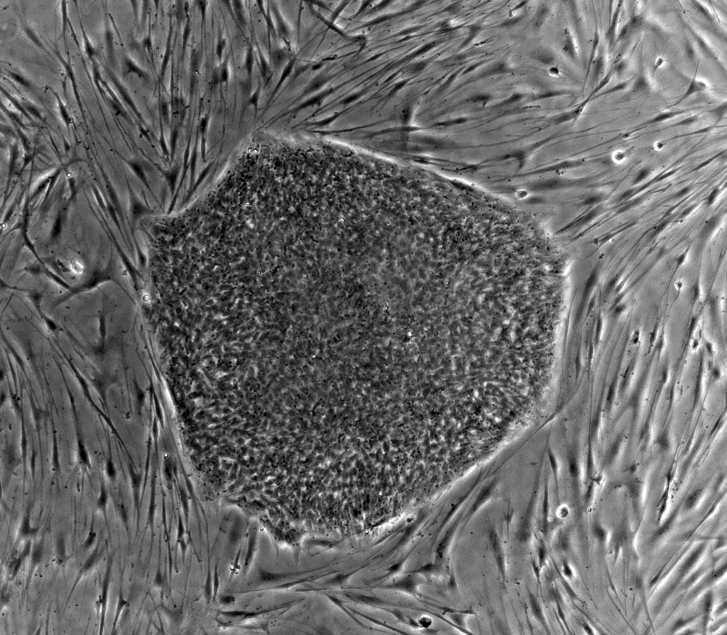 This image is of cell line SA02 ( Image is of human embryonic stem (hES) cell colony on a mouse embryonic fibroblast (MEF) feeder layer.